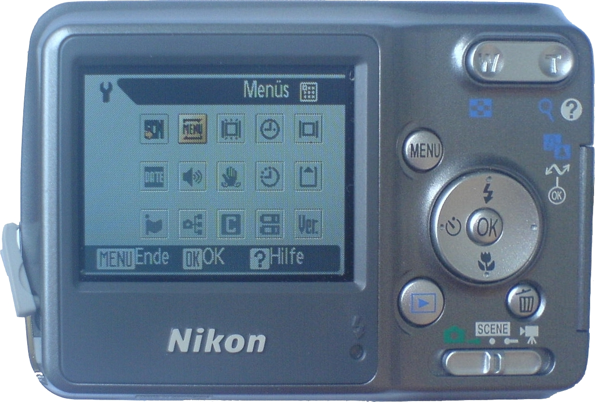 Nikon Coolpix L2 silver, reverse